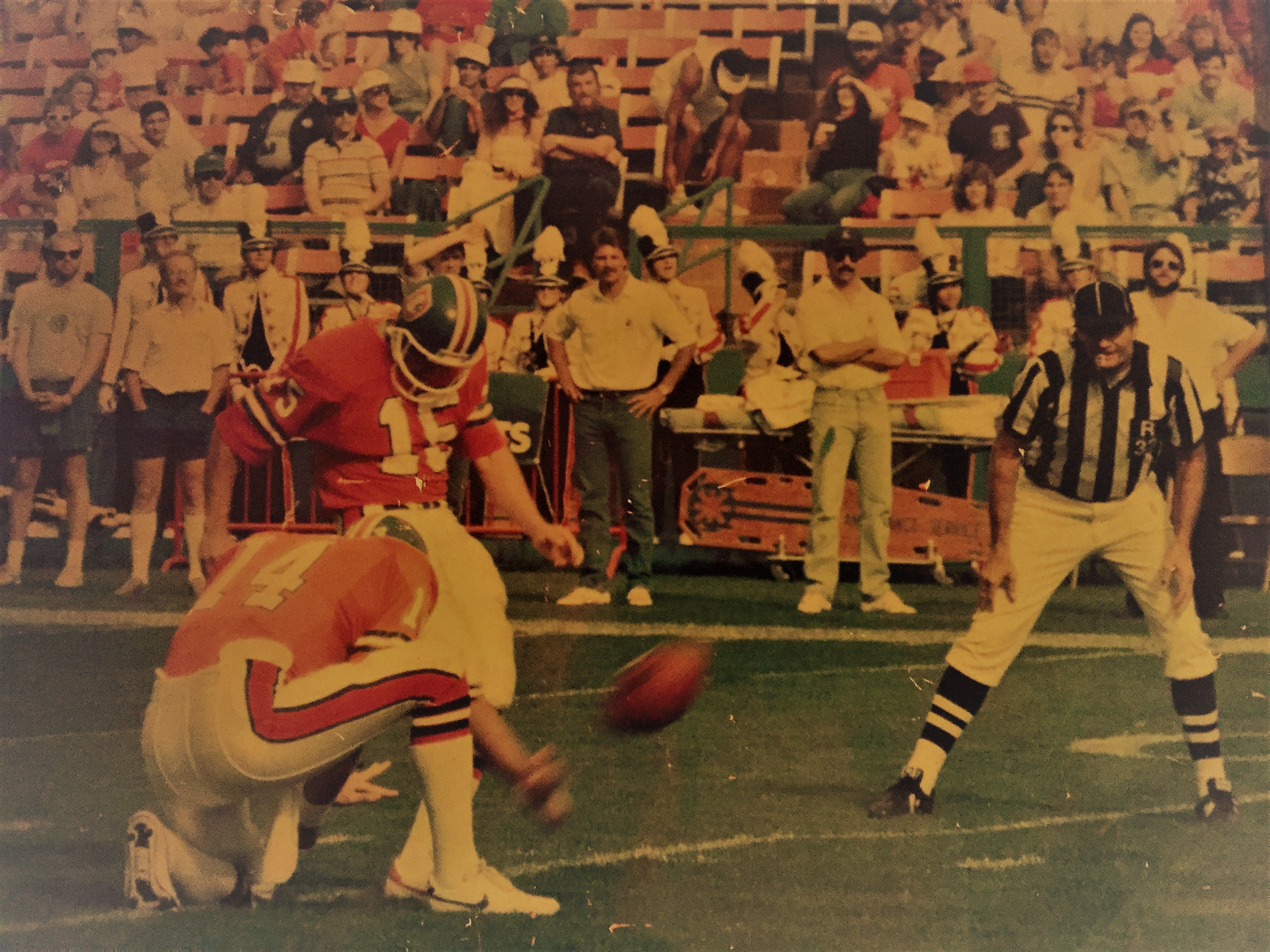 Mike Clendenen booting in another field goal.